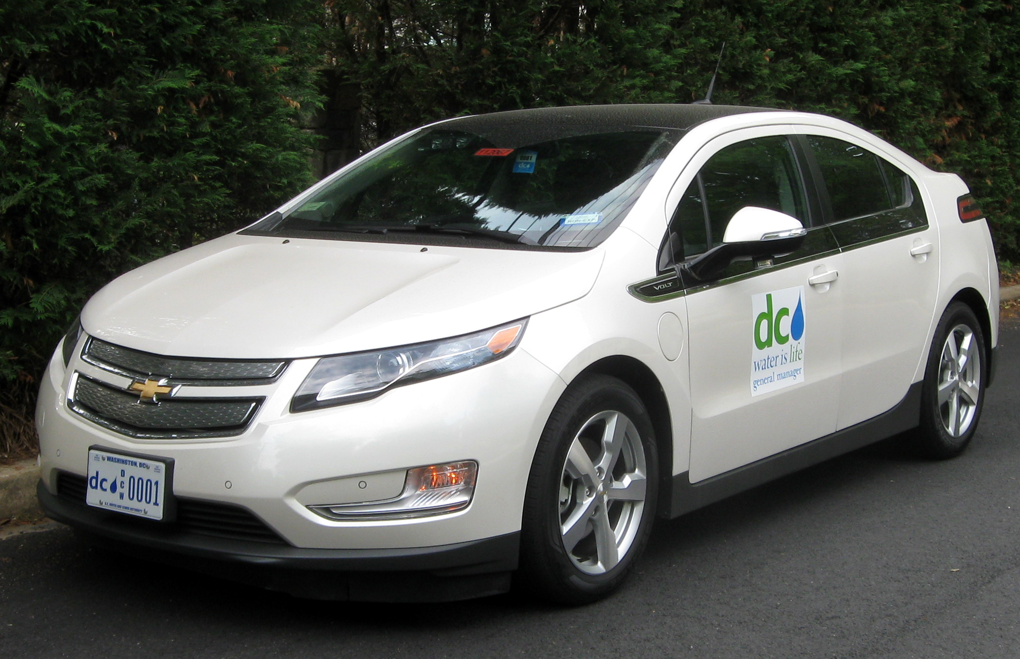 2011 Chevrolet Volt photographed in Washington, D.C., USA.